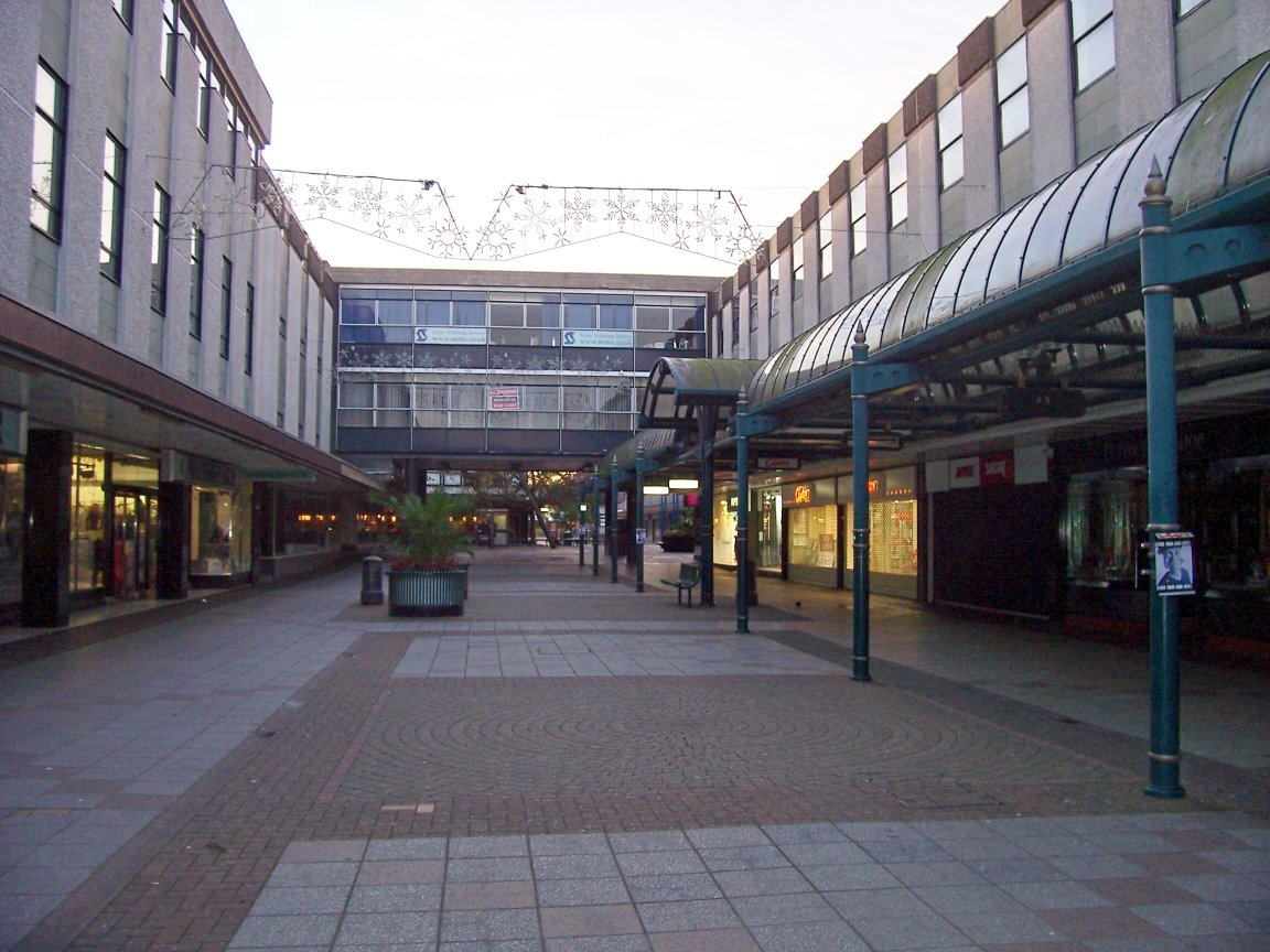 Stevenage pedestrianised town center.